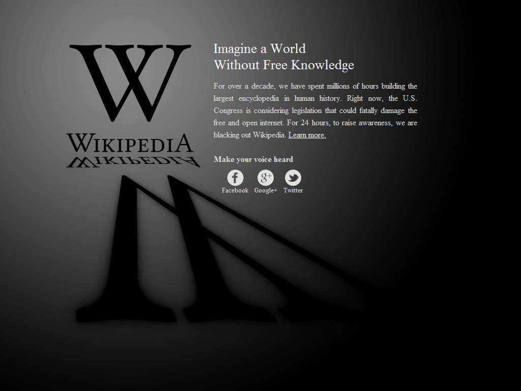 Mock design for a potential "blackout" screen for the English Wikipedia